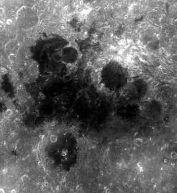 Mare Marginis lies on the very edge of the lunar nearside. It differs from most of the nearside maria. It has an irregular outline, and it appears to be fairly thin. Note the small circular and elongated features in the mare plains. These probably mark impact craters buried by less than 1000 - 1700 feet of lava. Further, Mare Marginis is not centered on any clear, large impact basin. Thus, Mare Marginis seems to mark a low-lying region of the highlands where mare lavas were just able to reach the surface. Several large mare-floored craters also occur nearby. In these craters, the crater floors lie below the surrounding highland surface. Thus, they mark sites around Mare Marginis where lavas were close to the lunar surface. The major crater to the north of Marginis Al-Biruni, with Ibn Yunus to the southeast, and Goddard to the northwest.